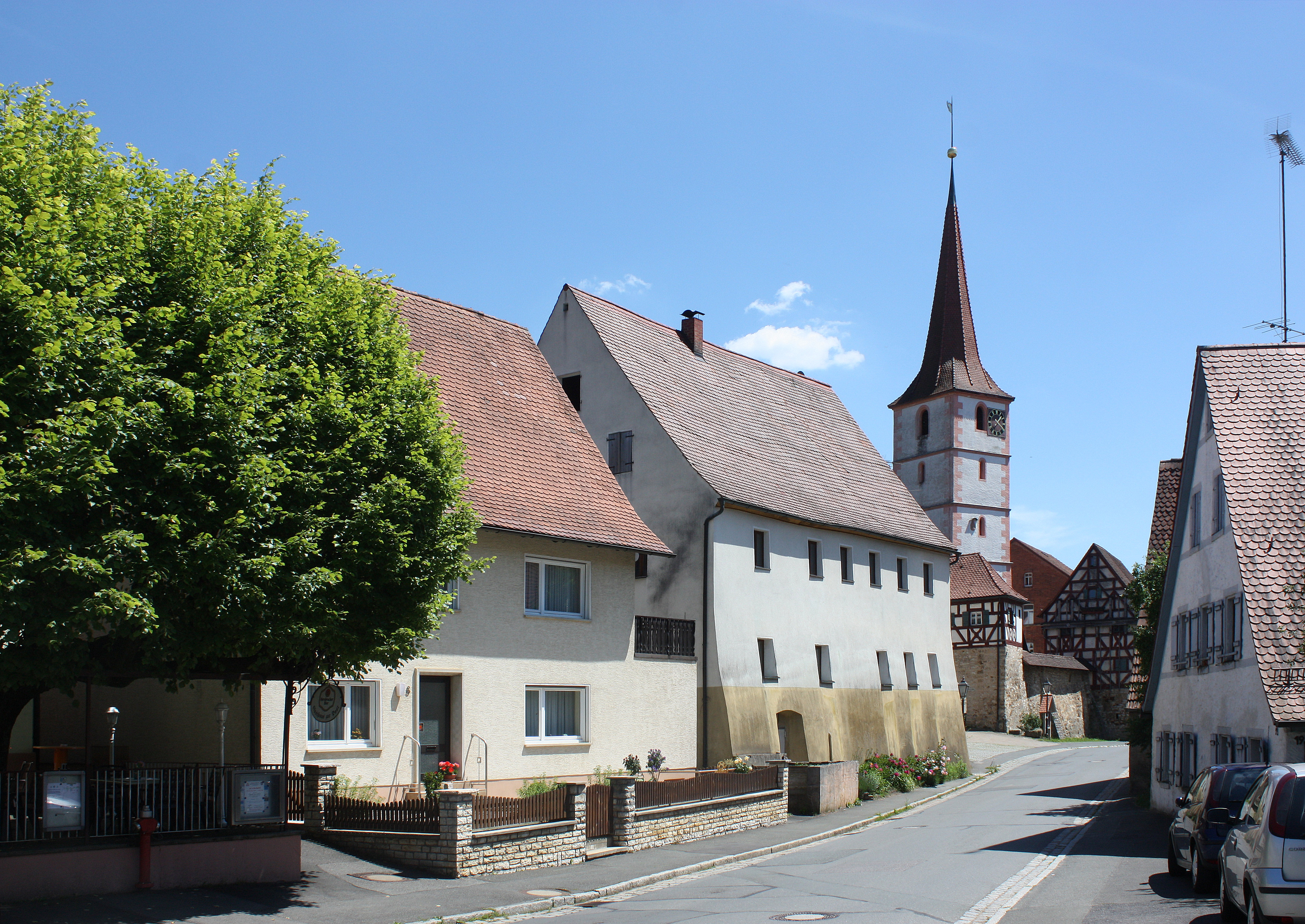 Kirchensittenbach, view to the village churchThis is a photograph of an architectural monument.